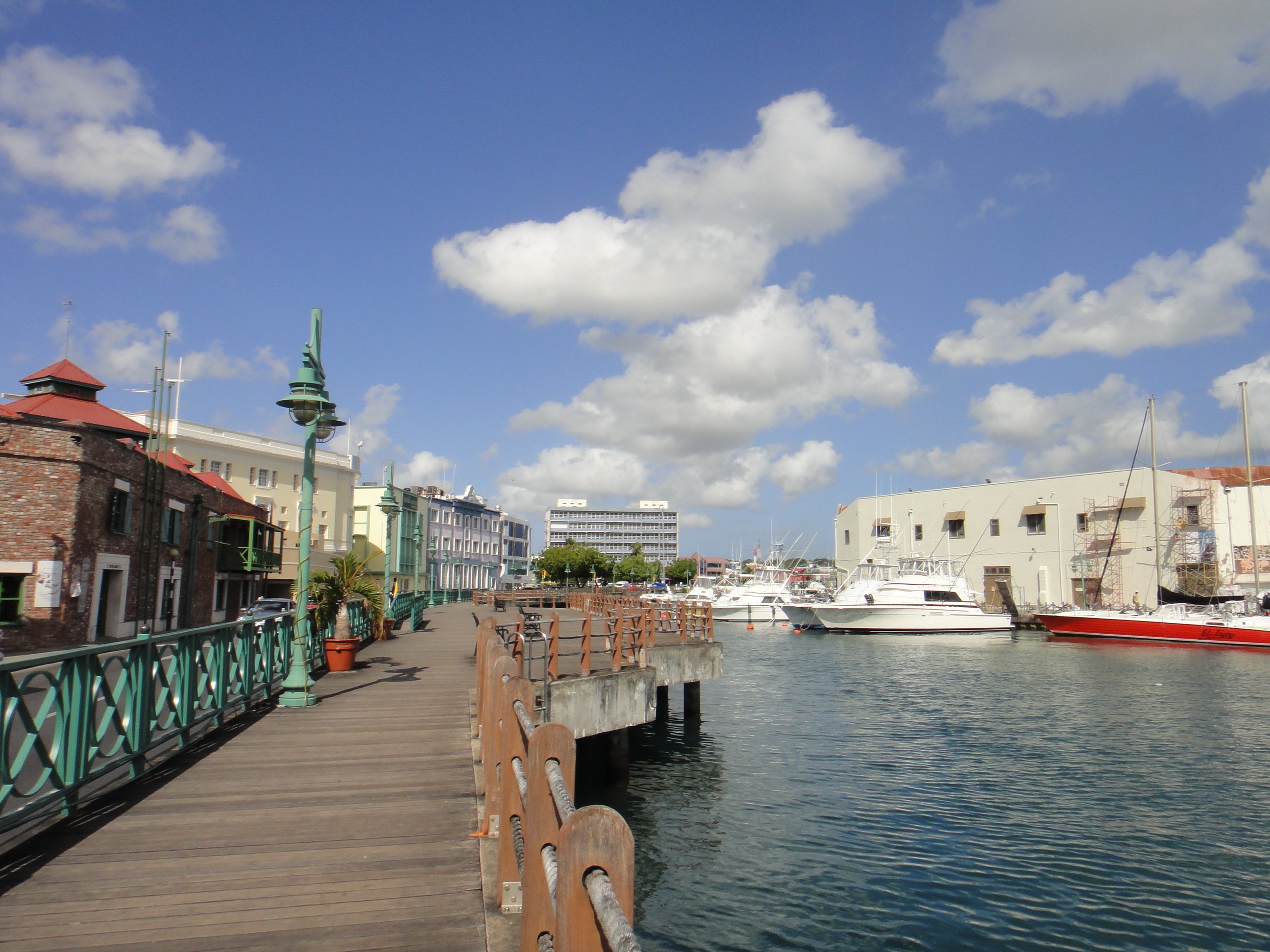 Historic Bridgetown and its Garrison (Barbados)